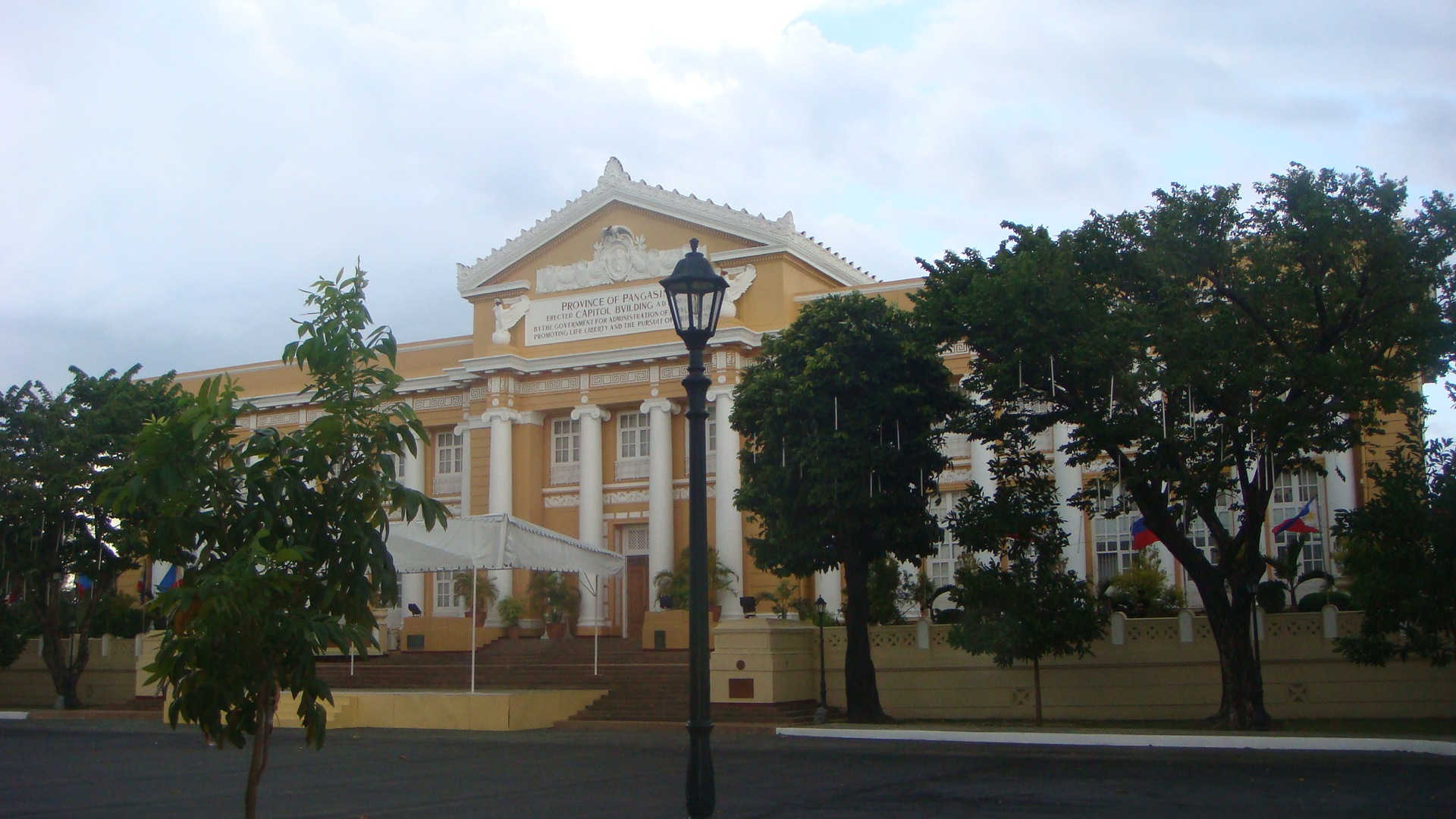 Provincial Capitol Building (Poblacion) Lingayen, Pangasinan)